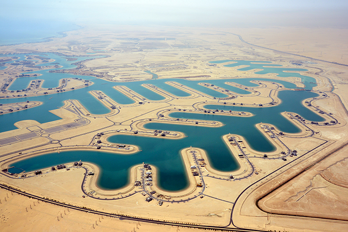 Sea City has pioneered many construction challenges and techniques in Kuwait.